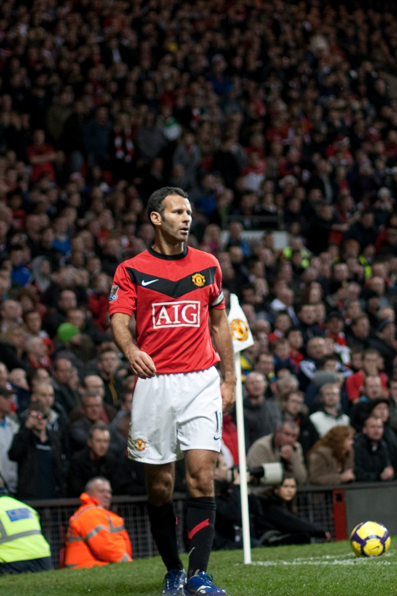 Ryan Giggs of Manchester United near the corner flag, Old Trafford, Manchester